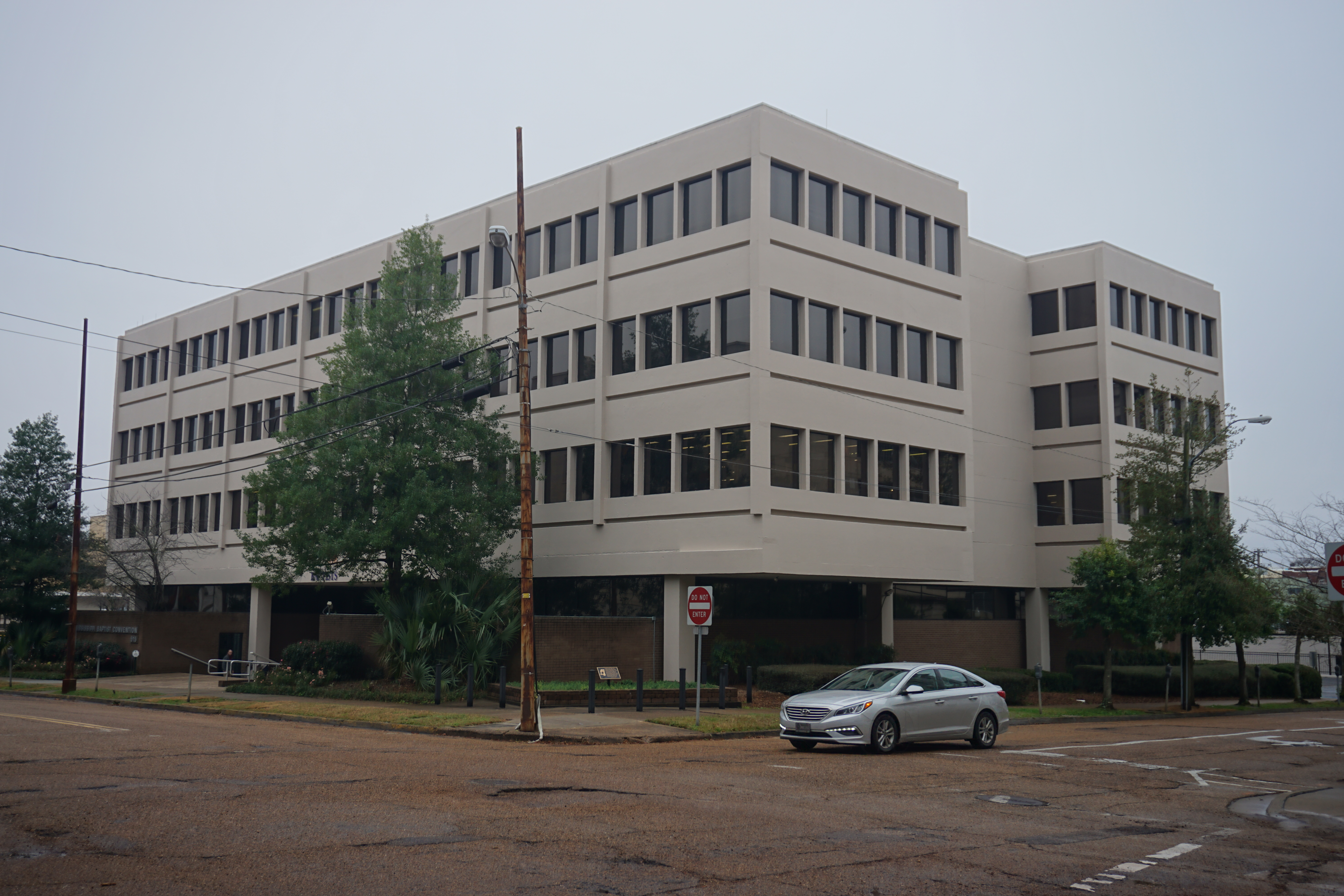 The Mississippi Baptist Convention building in Jackson, Mississippi (United States).